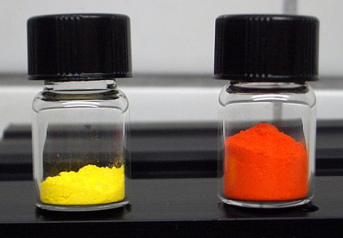 Mercury iodide, the red and the yellow forms